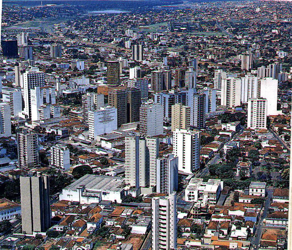 Aerial photo of Uberlândia, Minas Gerais state, Brazil.